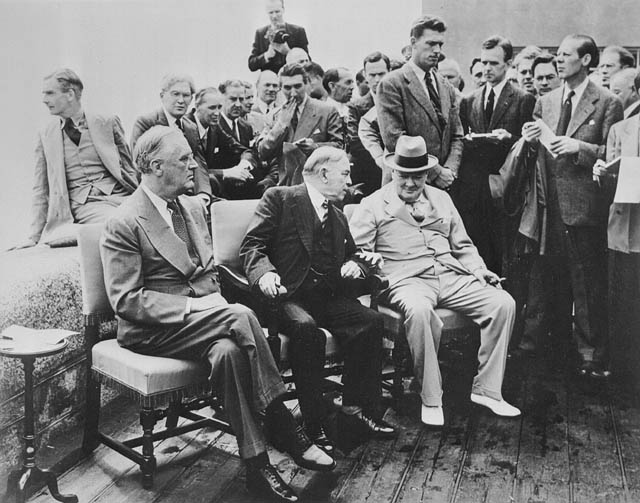 President Frankllin D. Roosevelt, Rt. Hon W.L. Mackenzie King and Rt. Hon. Winston Churchill at the Quadrant Conference